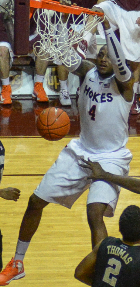 Cadarian Raines dunks for Virginia Tech vs. Wake Forest